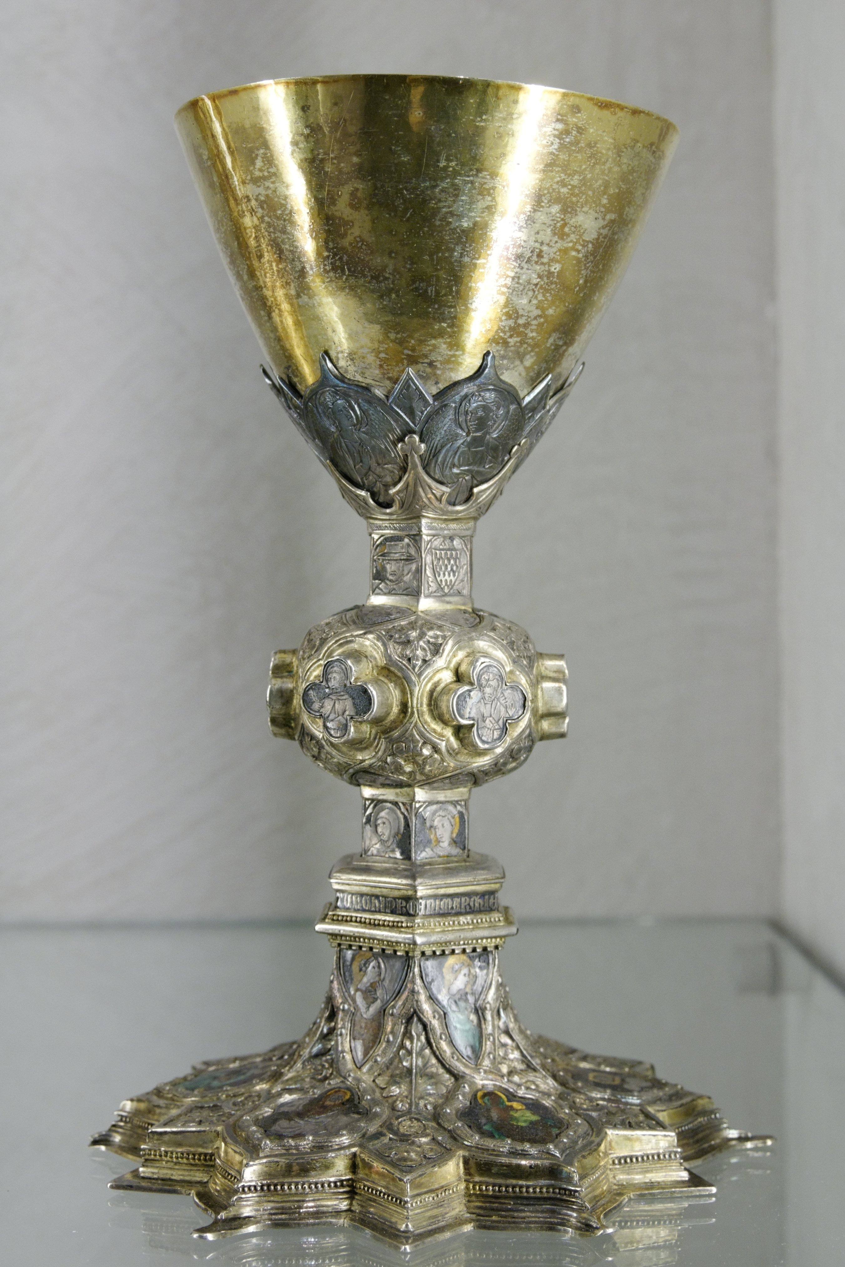 Chalice. Gilt and chased silver with translucent enamels, ca. 1390.